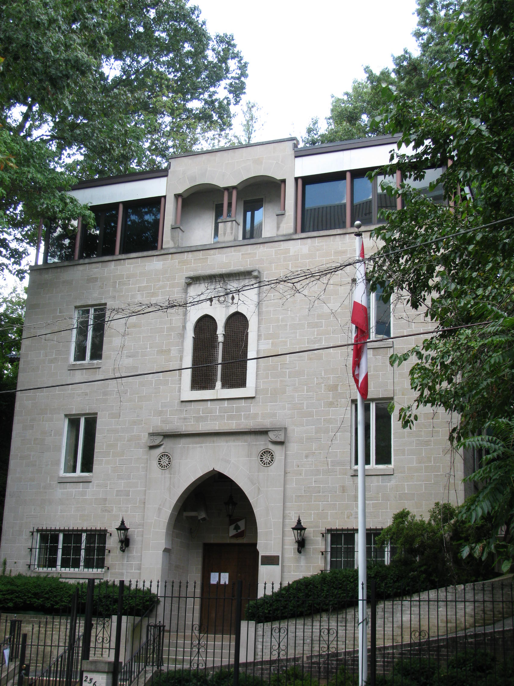 The Embassy of Lebanon in Washington, D.C. is the Republic of Lebanon's diplomatic mission to the United States. It is located at 2560 28th Street, Northwest, Washington, D.C., in the Woodley Park neighborhood.